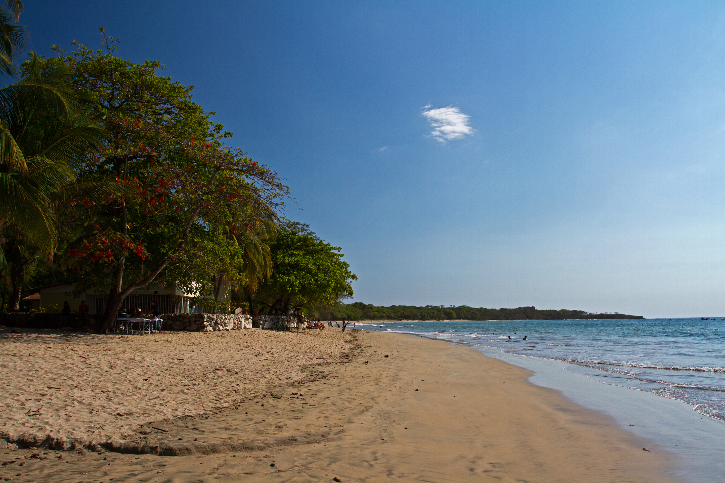 Tamarindo Beach, Guanacaste, Costa Rica.